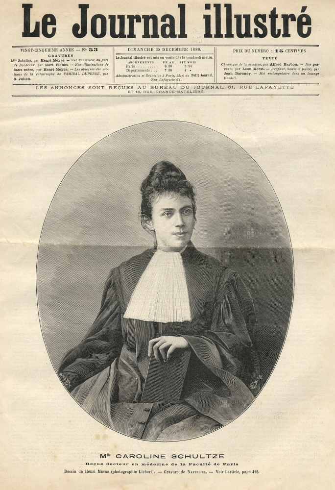 Portrait of the Polish-born French physician Caroline Schultze (b.1867), on the front page of Le Journal illustré.